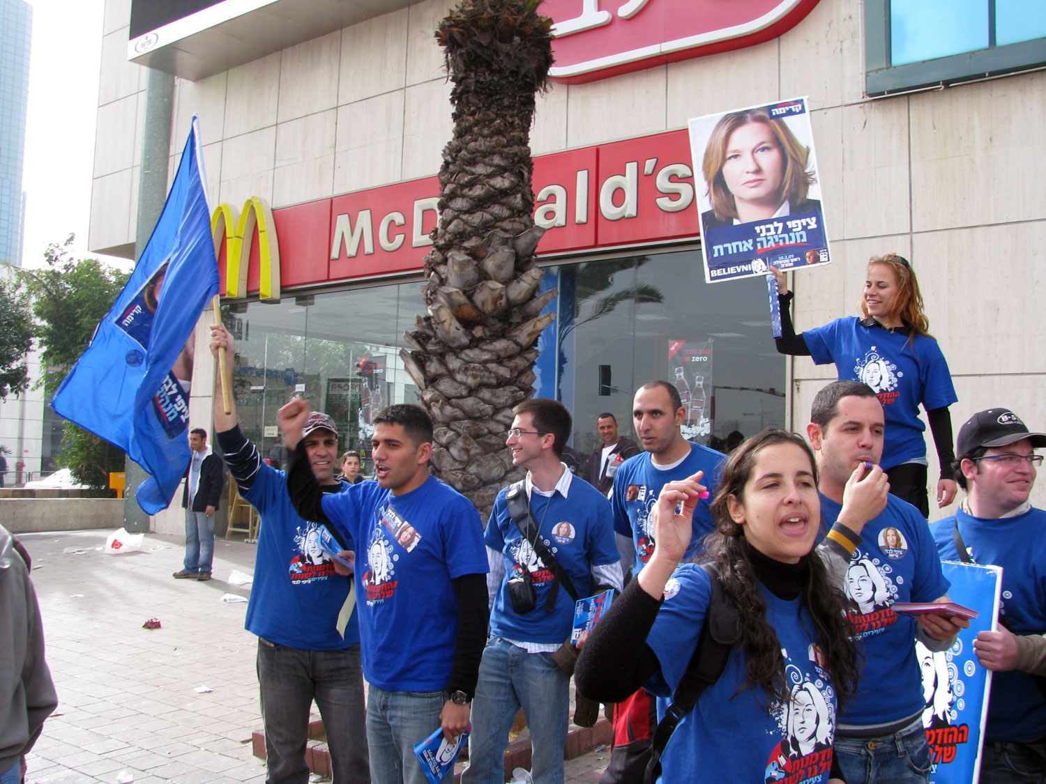 "Youngs 4 Tzipi Livni" movement during election 2009 in Israel.